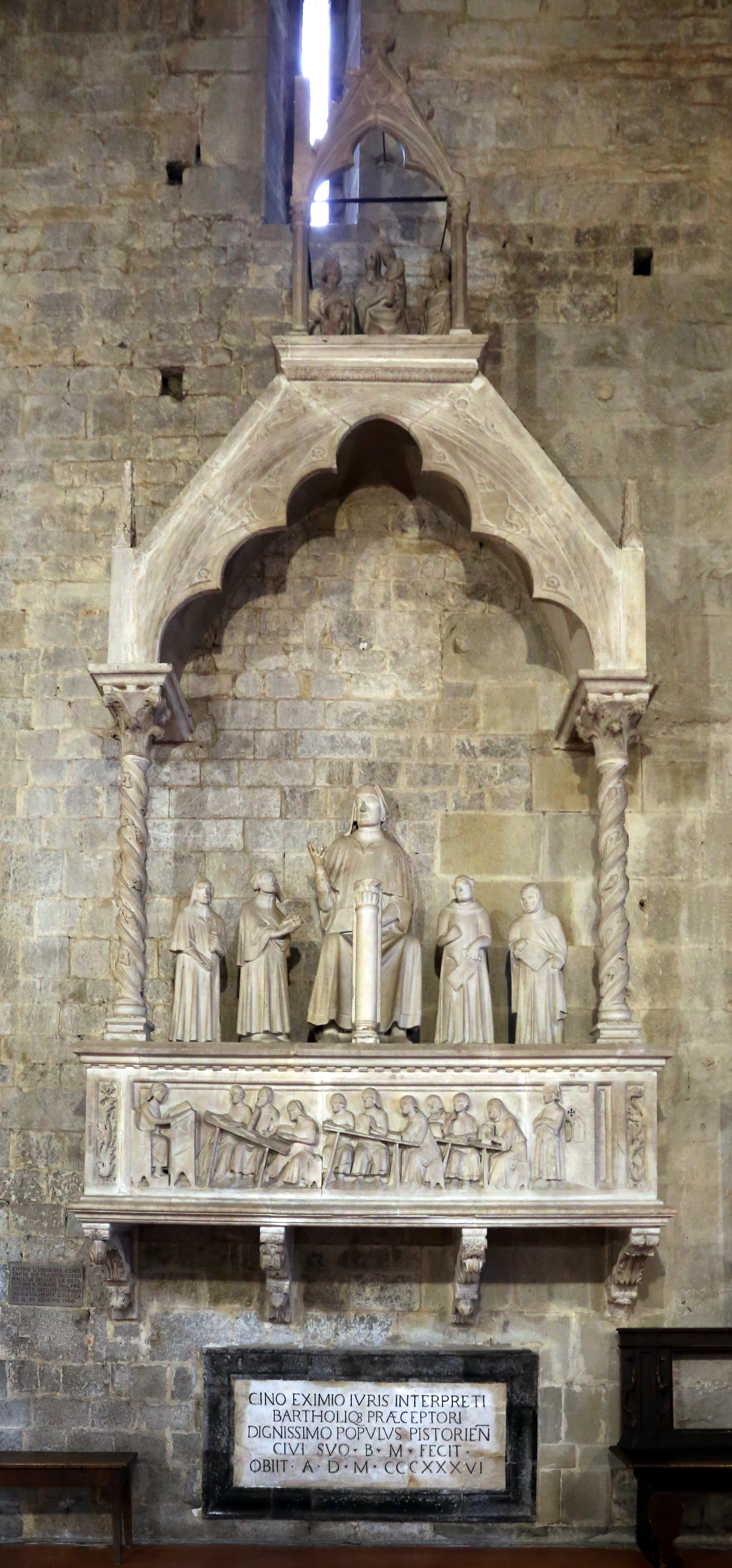 Duomo (Pistoia) - Interior